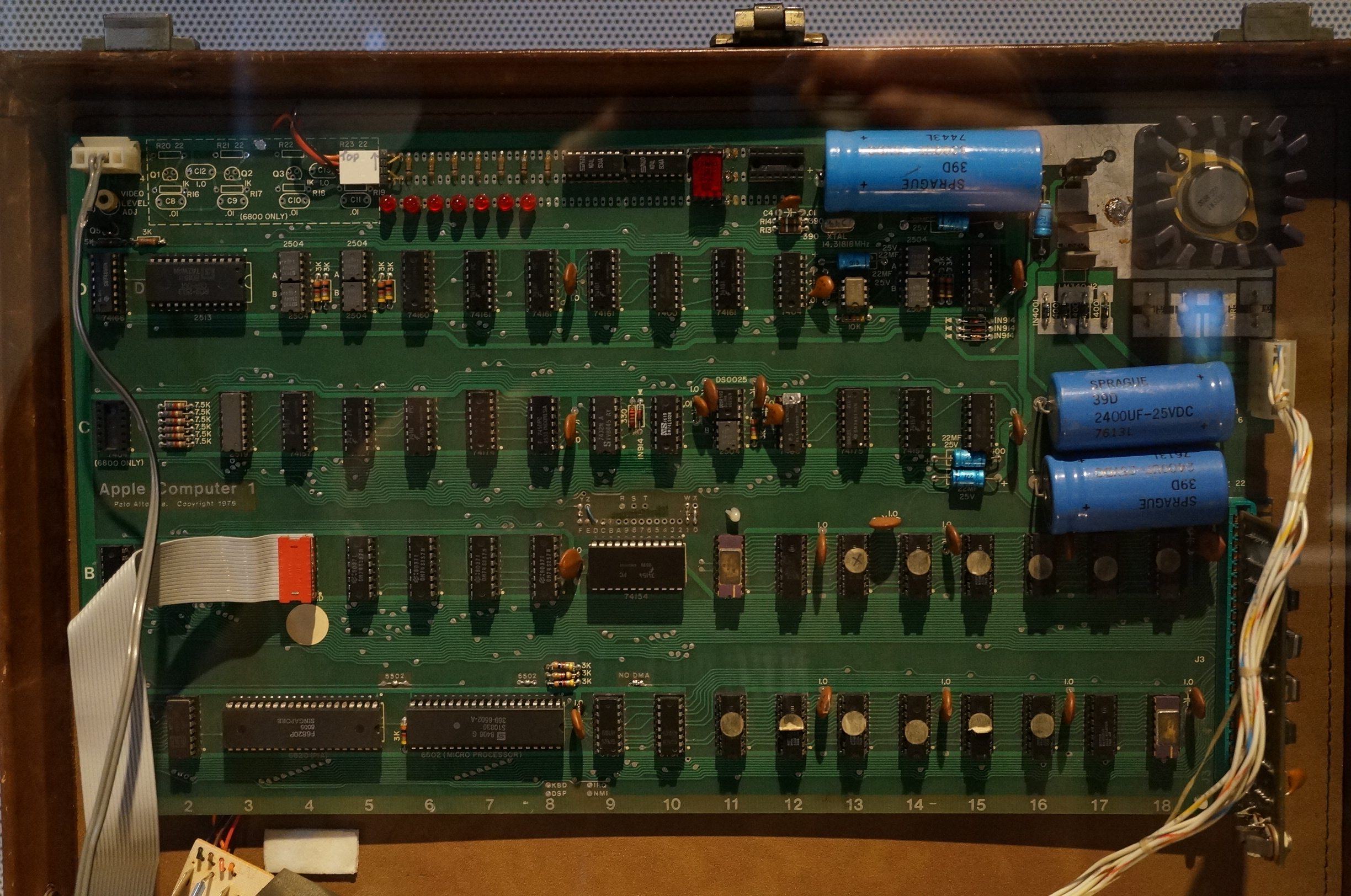 Original 1976 Apple 1 Computer PCB From the Sydney Powerhouse Museum collection